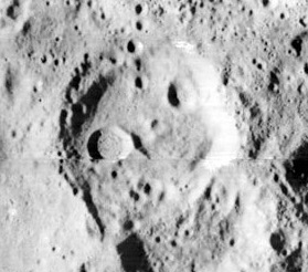 Pannekoek, on the moon.